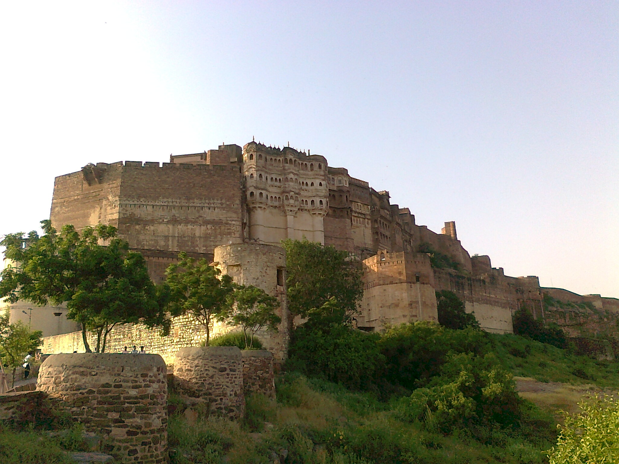 MEHRANGARH FORT from rear side